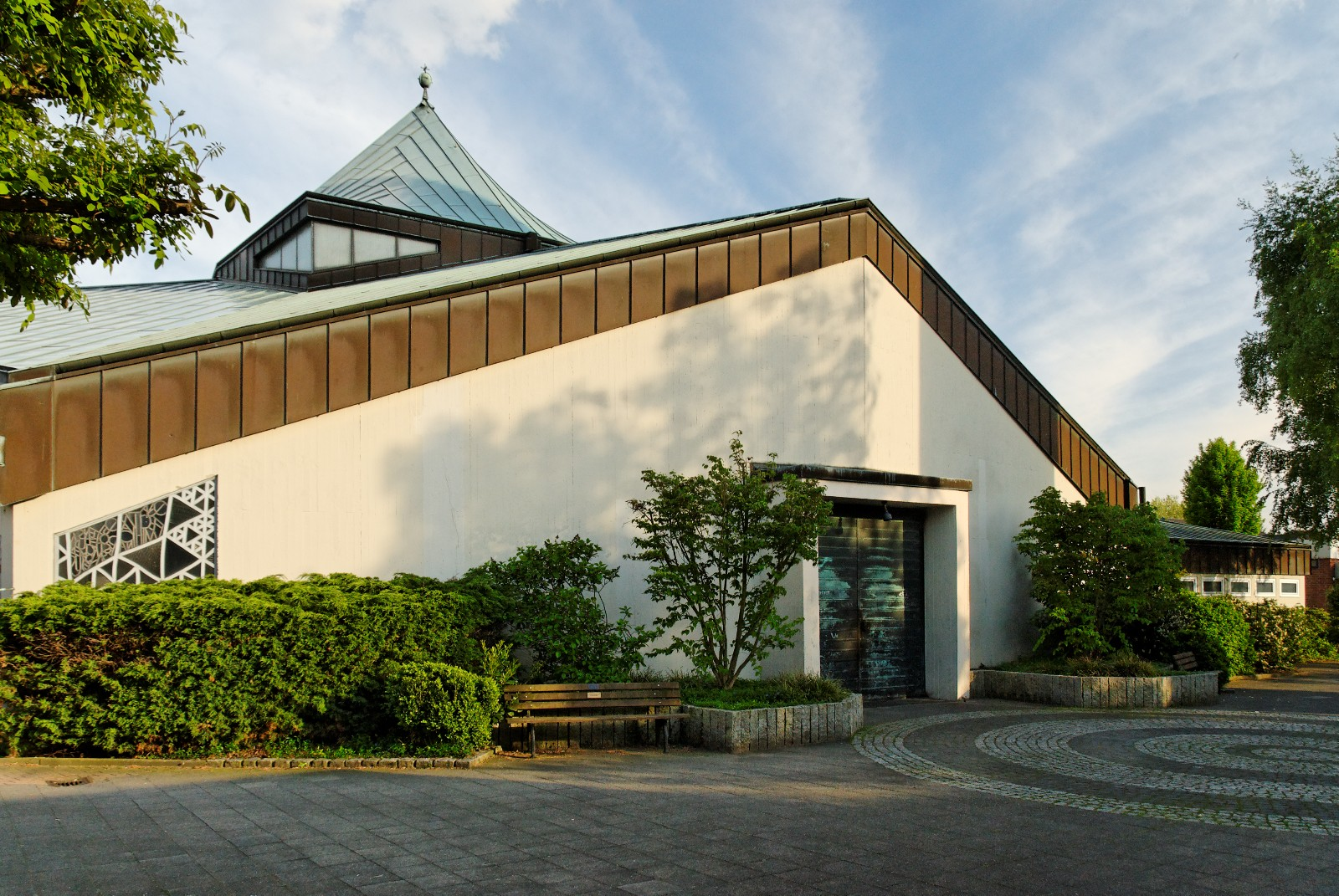 Assumption Church in Düsseldorf-Unterbach, Germany